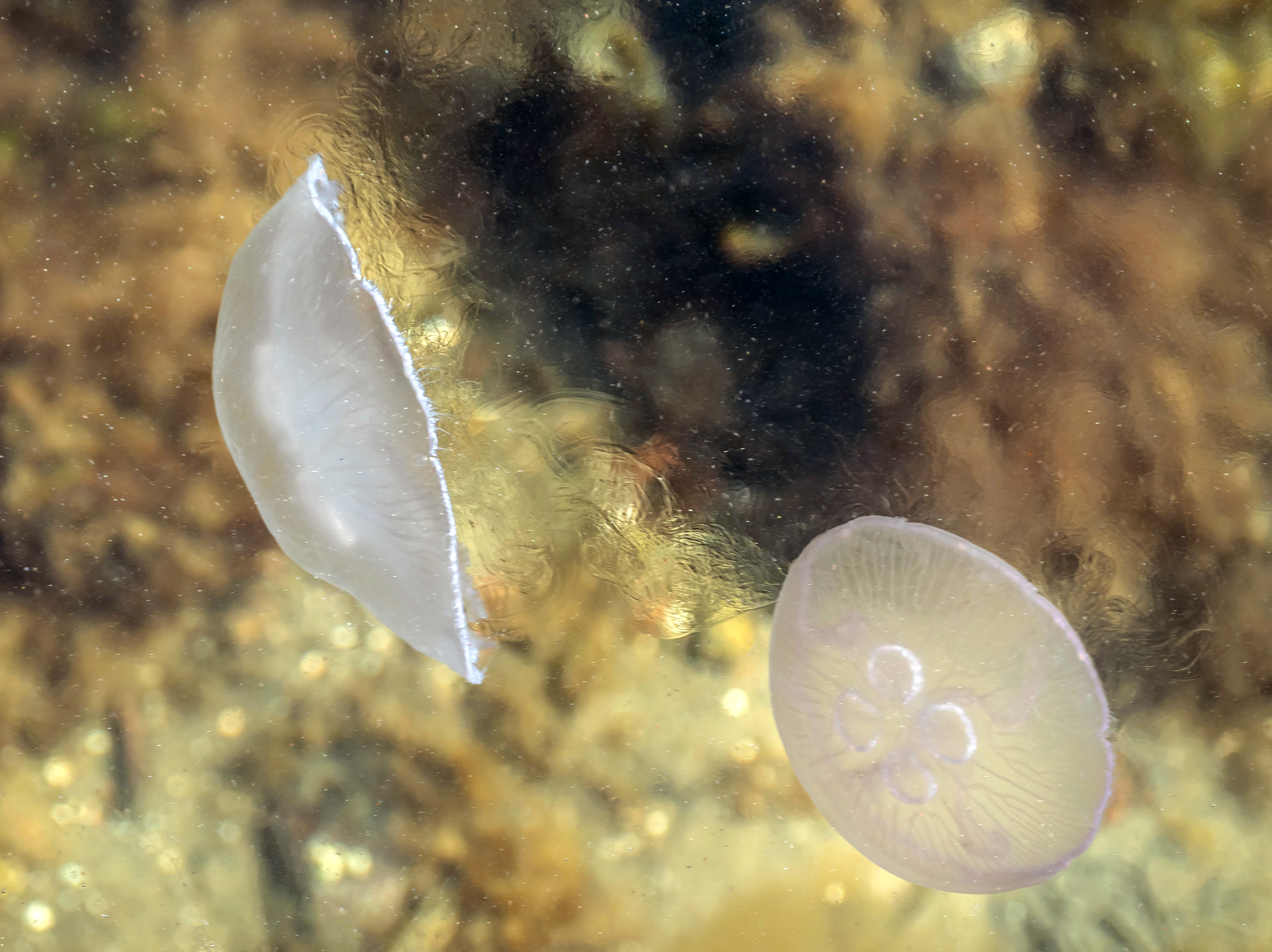 Moon jellyfishes (Aurelia aurita) disturbing the top water layer of Gullmarn fjord at Sämstad, Lysekil Municipality, Sweden. The photo was taken on a calm, sunny morning after a rain, so it's likely that the layer is warmer water with some freshwater added. In this case that would make a thermocline coincide with a halocline and resulting in a very thin but visible pycnocline. This difference in density and the altered refractive index is what makes the water look "oily". The jellies are quite small and young, about 5–6 cm (2.0–2.4 in) in diameter, and since the are just below the surface and stirring up the pycnocline beneath them, that would make the layer of warmer freshwater on the fjord about 6–8 cm (2.4–3.1 in) thick at the time.